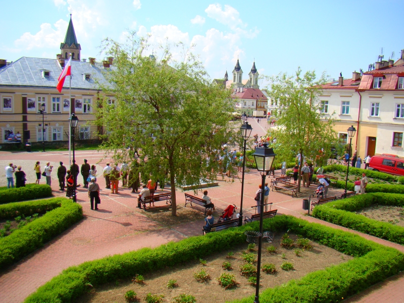 Flag Day in Sanok